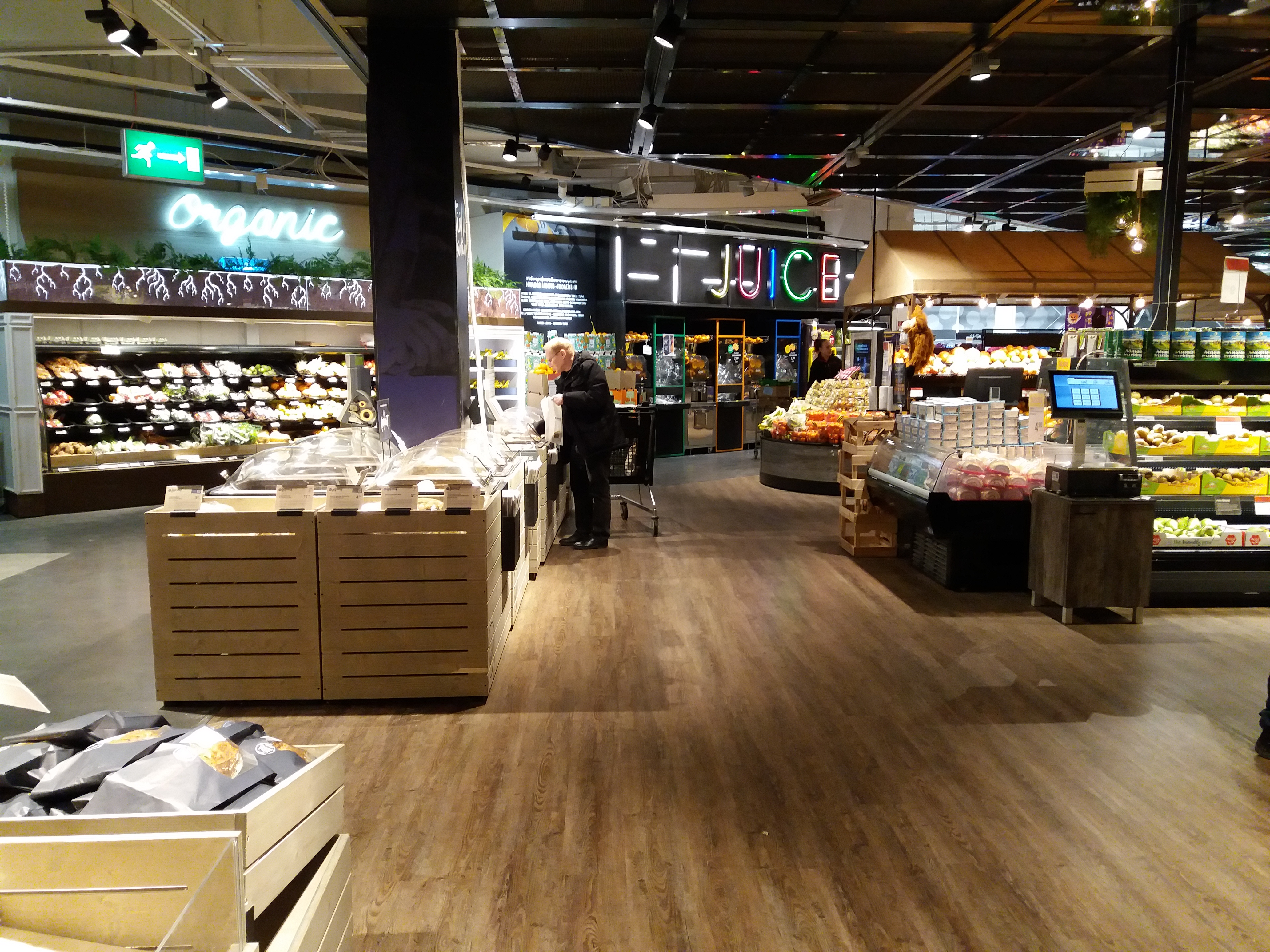 The fruit and bread section of K-Citymarket Järvenpää in southern Finland. This store has been a candidate for world's best grocery store in 2019.